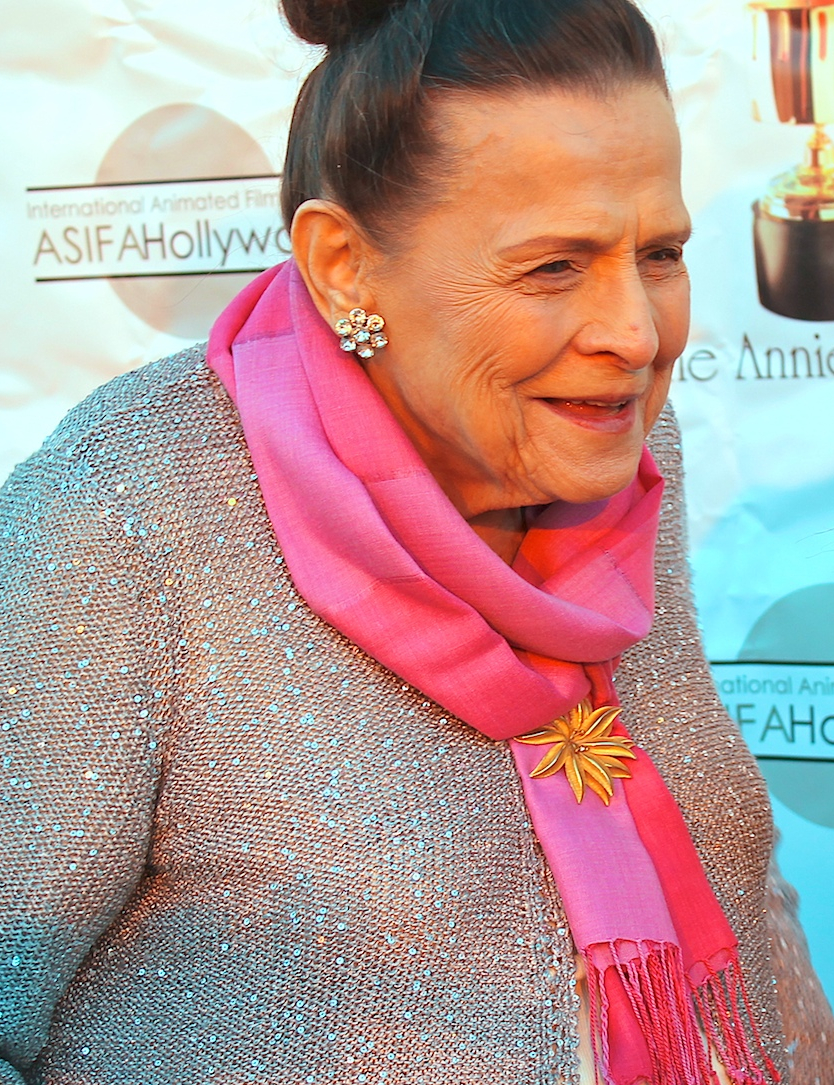 Alice Estes Davis at the 41st Annual Annie Awards.